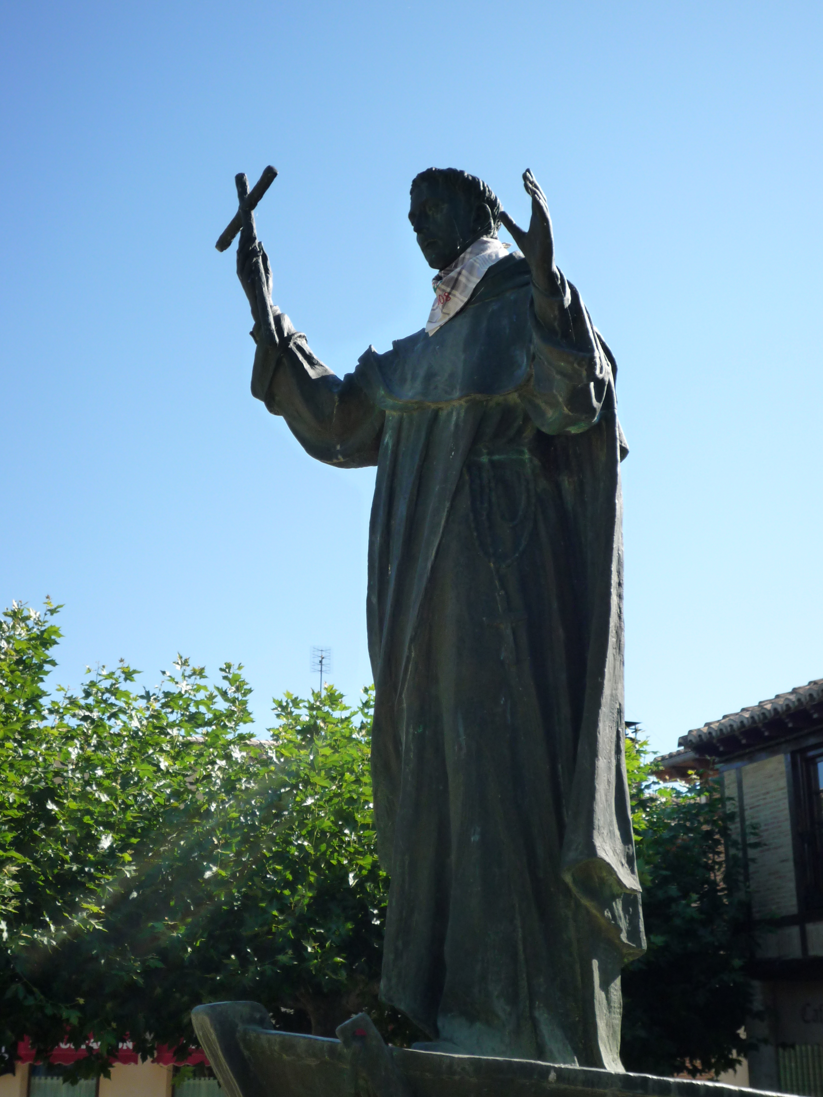 Statue of Saint Telmo (Pedro González Telmo) in Frómista, province of Palencia, Spain.